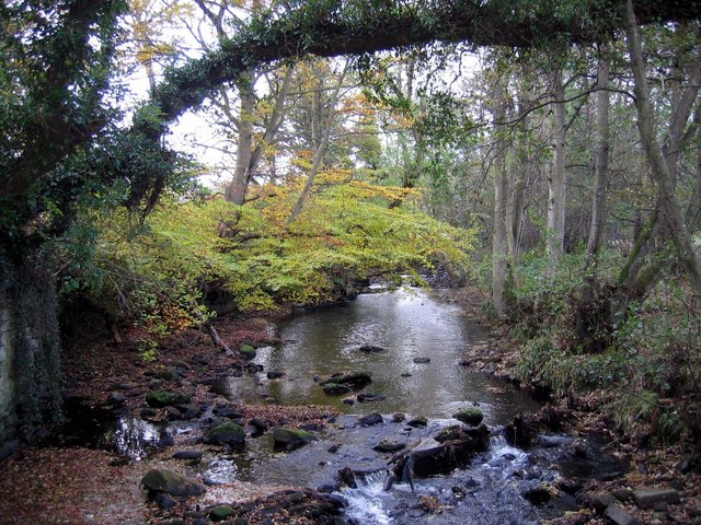 The Devil's Water, near Dukesfield smelt mill